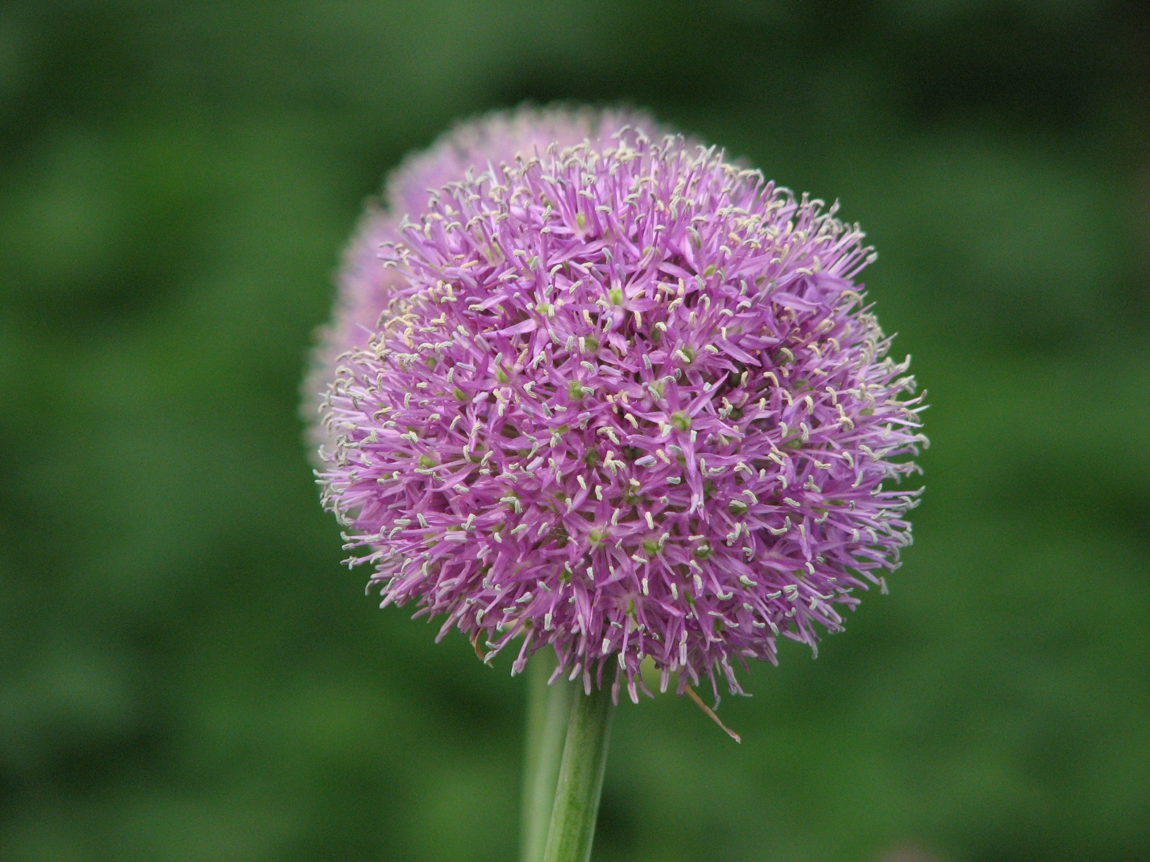 Flowering onion (Allium aflatunense) in flower beds in the Botanical Garden of Moscow State University "Aptekarsky Ogorod".